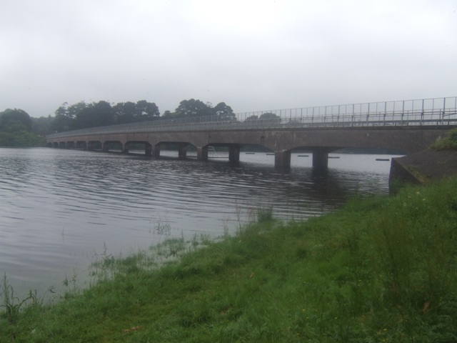 Rooves Bridge - River Lea, Lea Valley